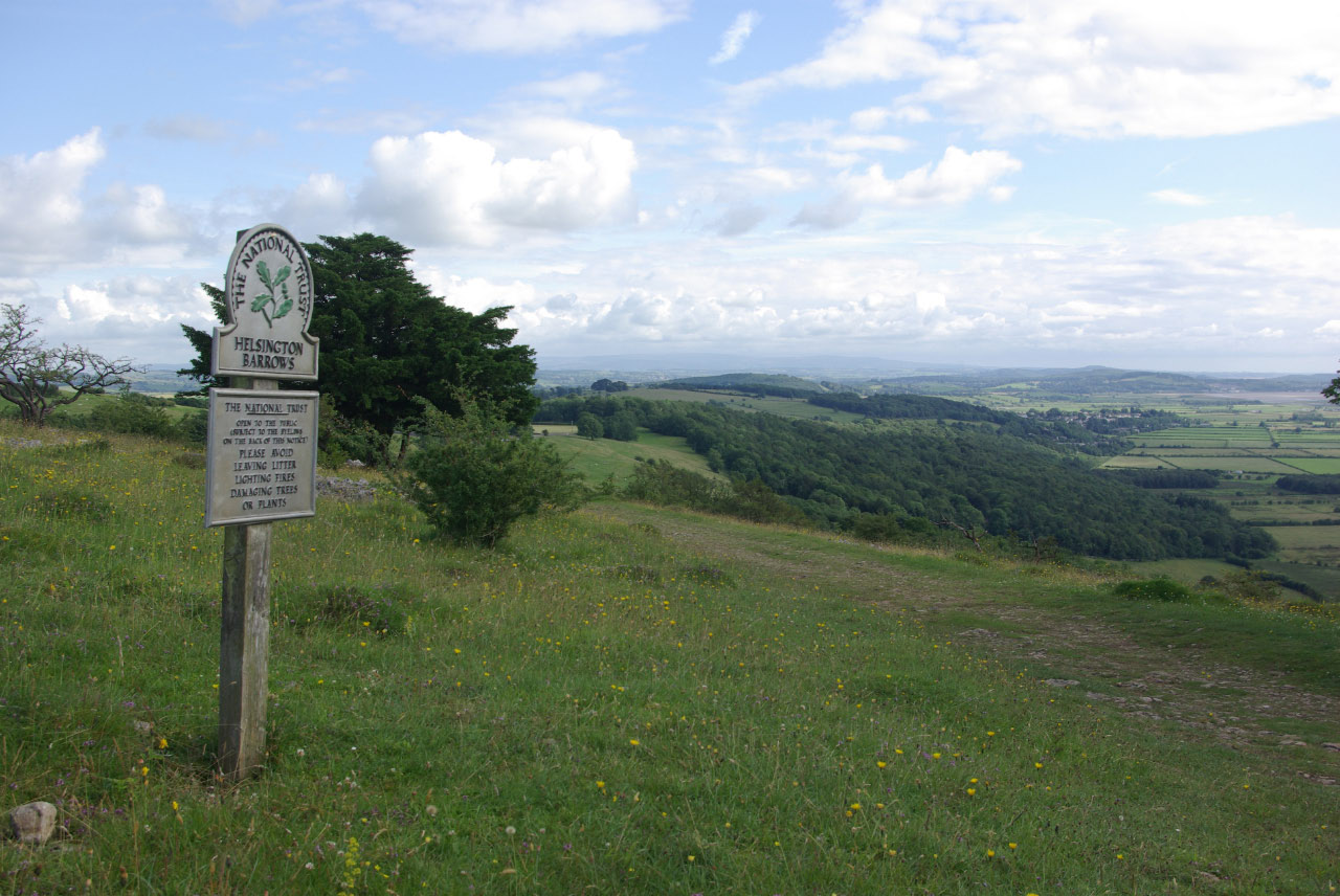 Part of the National Trust's Sizergh Estate